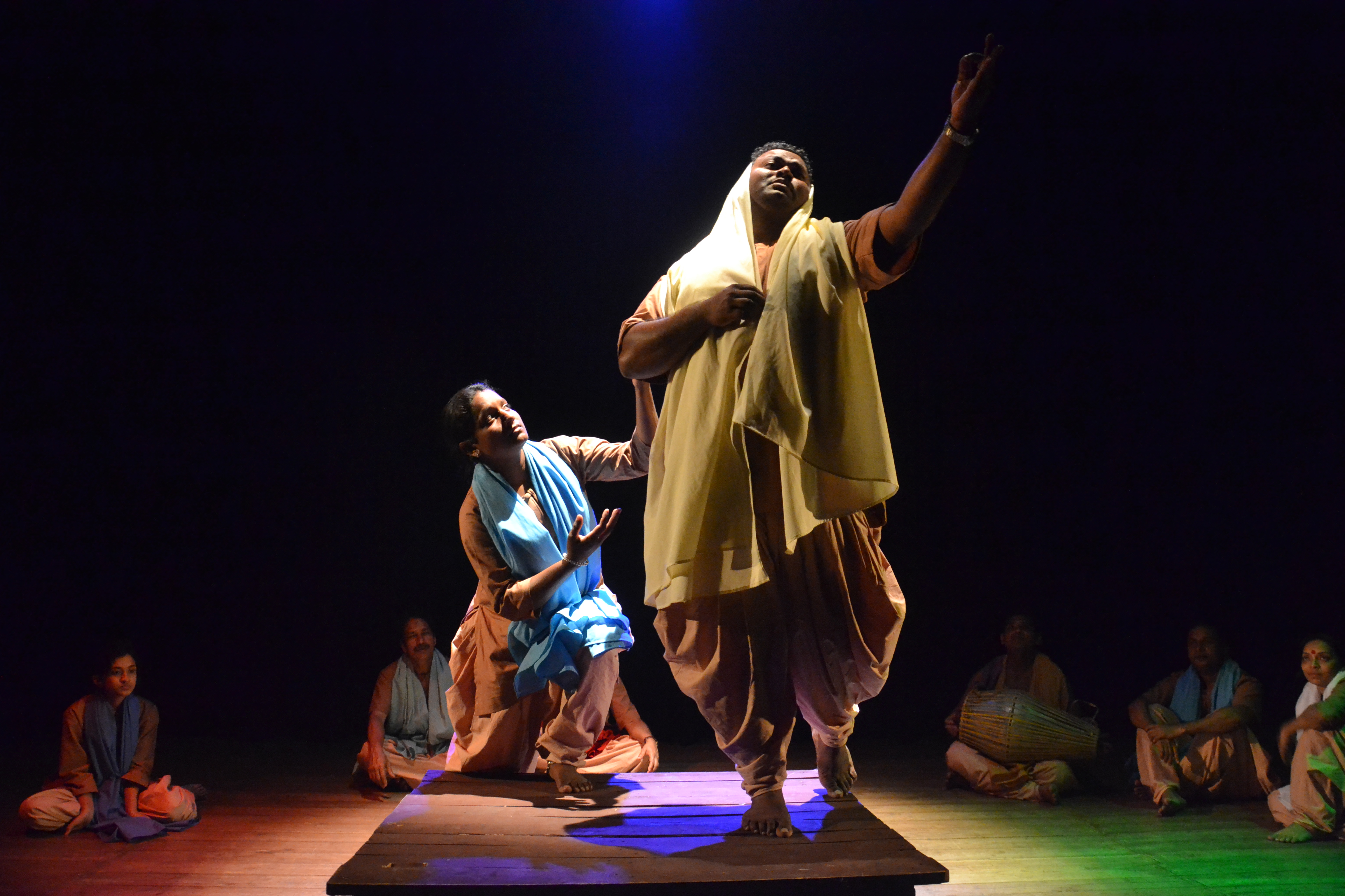 "মুচিরাম গুড়" নাটকের ছবি